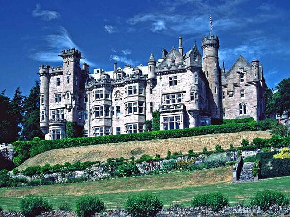 Skibo Castle near Dornoch.